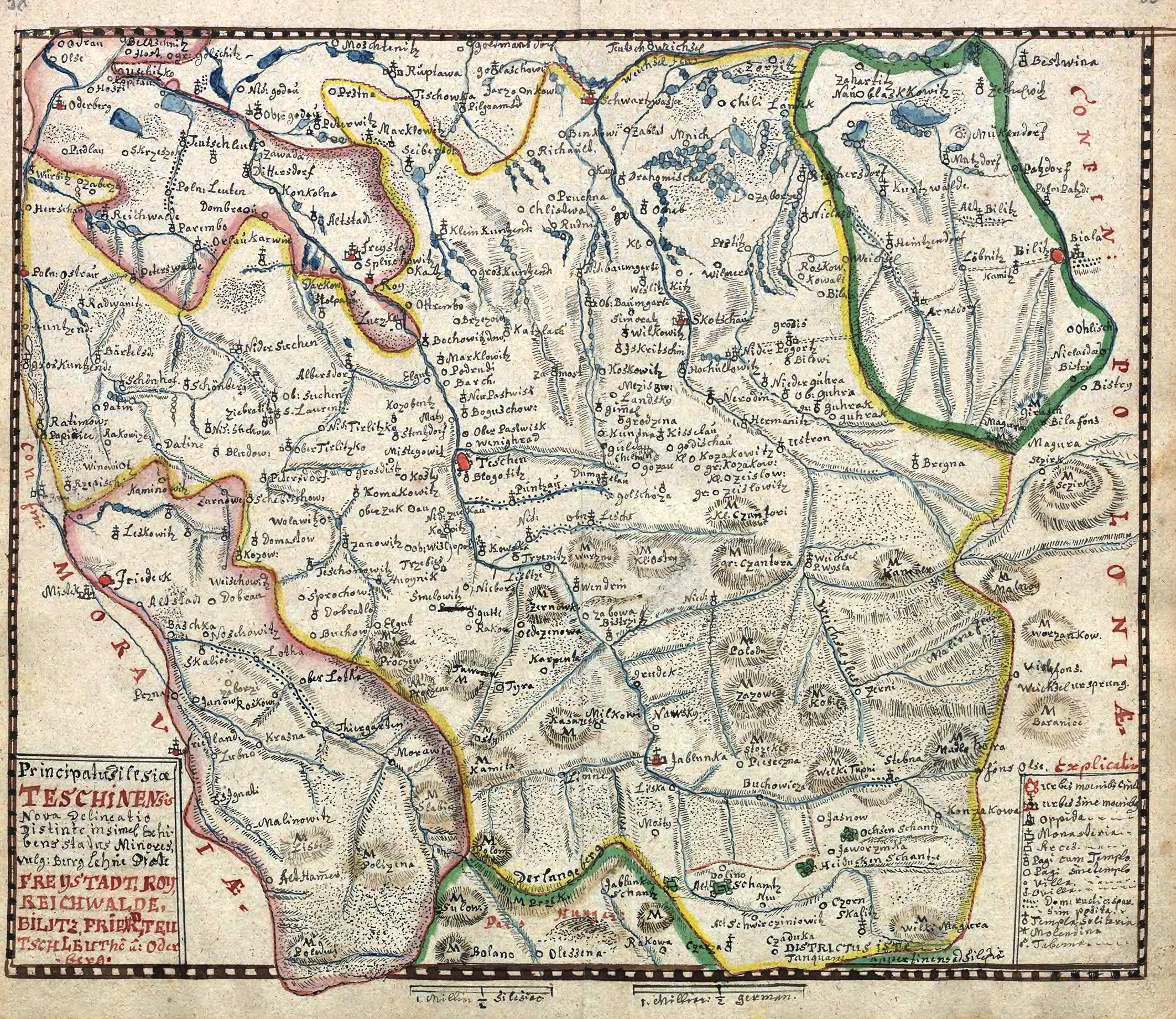 Map of the Duchy of Teschen/Cieszyn from 1750